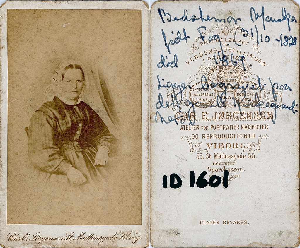 Grandmother Marcker (1828-1869) in Viborg